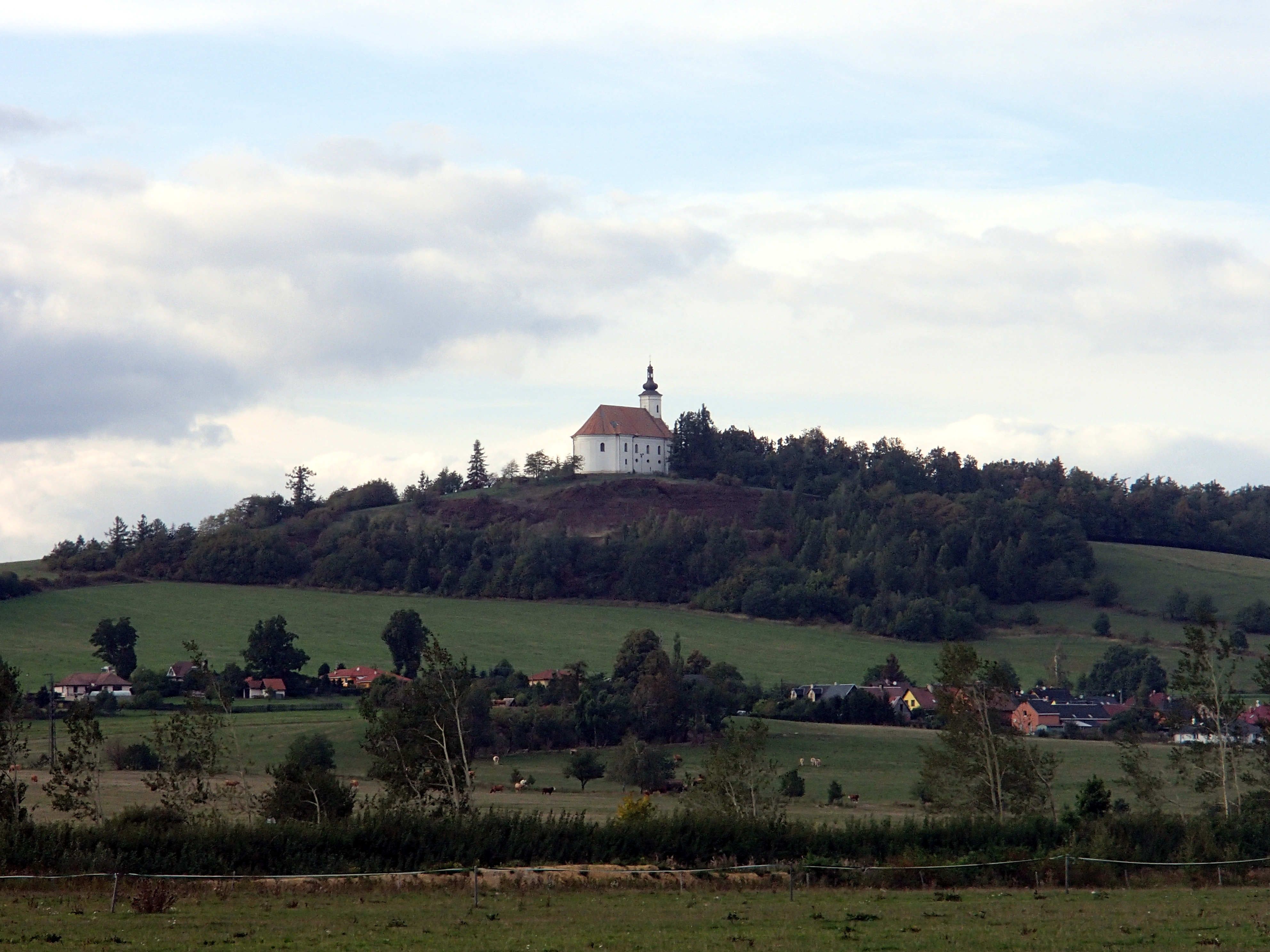 Uhlířský vrch, Bruntál, Czech Republic